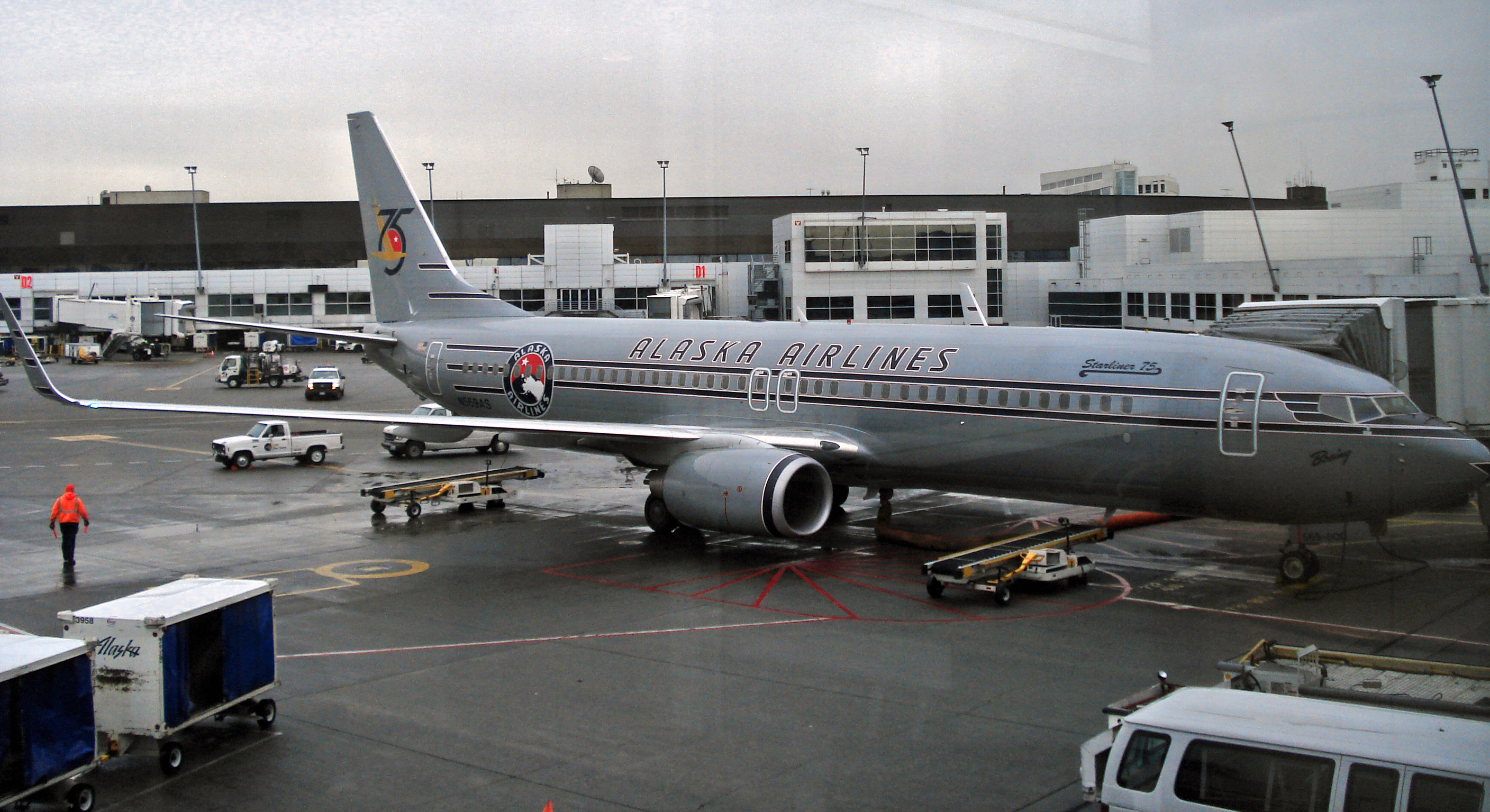 Alaska 737-800 in 75th Anniversary scheme at Sea-Tac in December 2009.